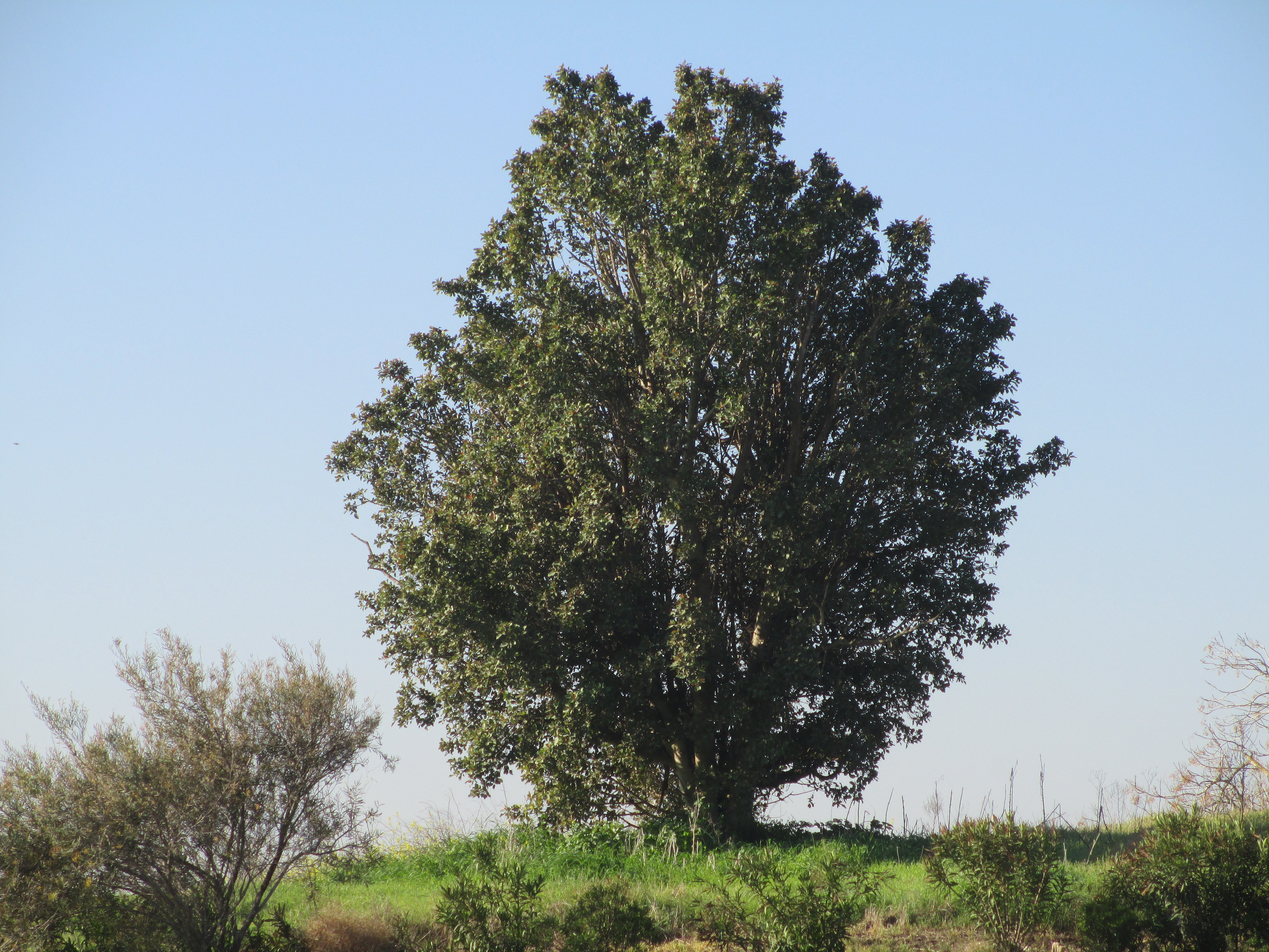 Sycamore tree